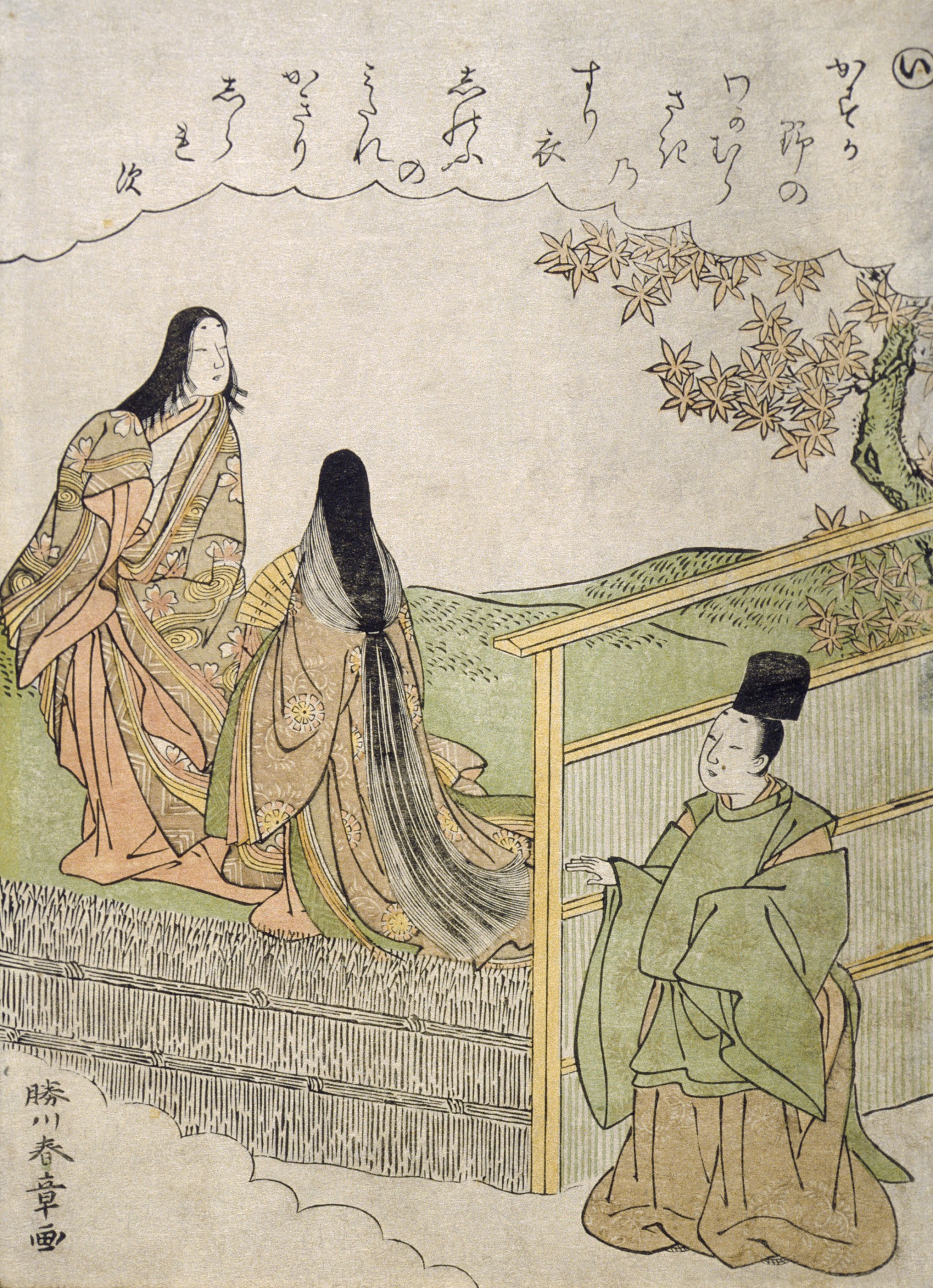 Japan, circa 1766 Series: Tales of Ise in Iroha Order Prints; woodcuts Color woodblock print Image: 8 11/16 x 6 3/16 in. (22.1 x 15.7 cm); Paper: 8 11/16 x 6 3/16 in. (22.1 x 15.7 cm) Gift of C.W.A. Buma (23.19.4) Japanese Art